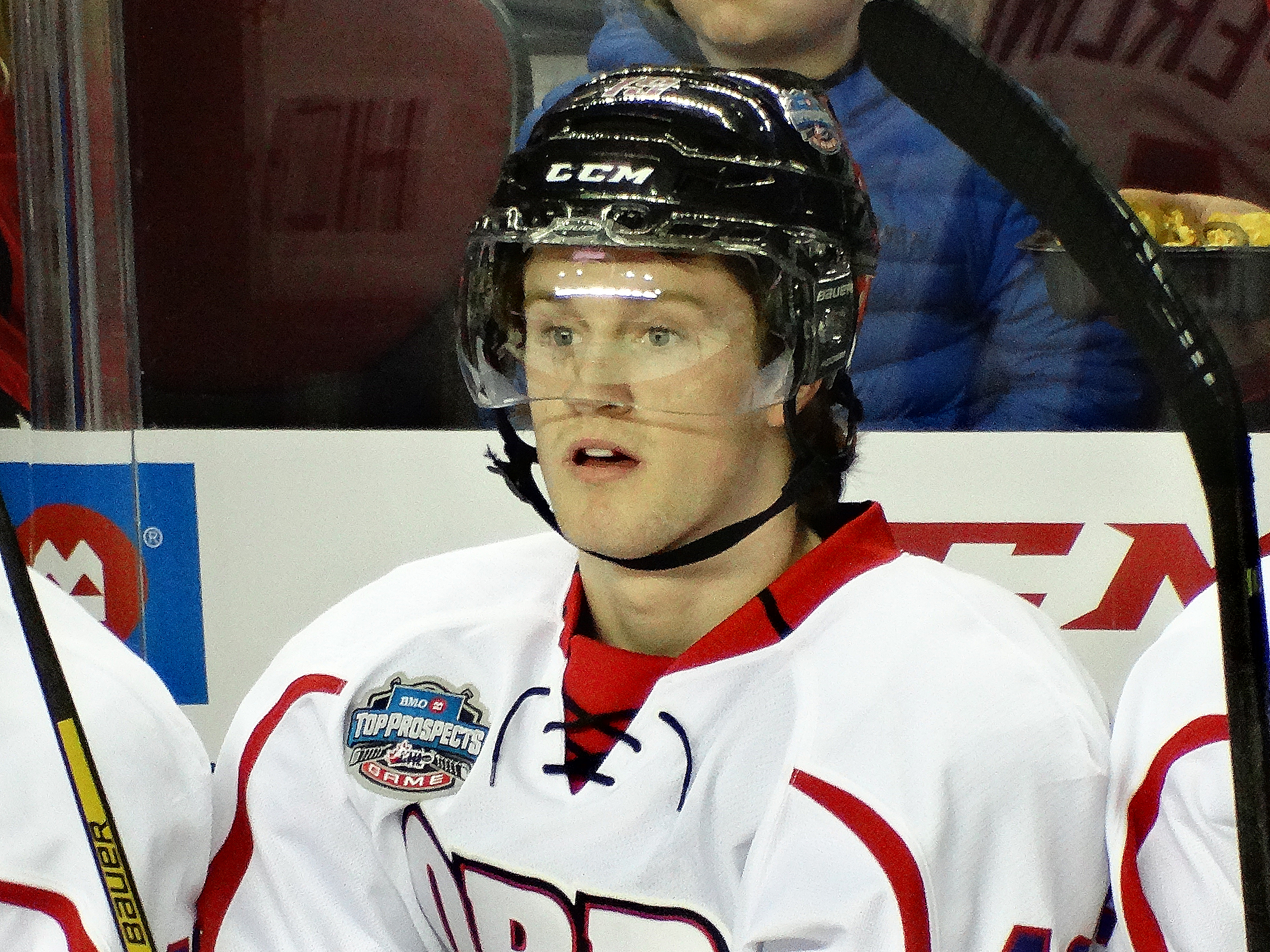 Jared McCann, Canadian ice hockey centre at the CHL / NHL Top Prospects game